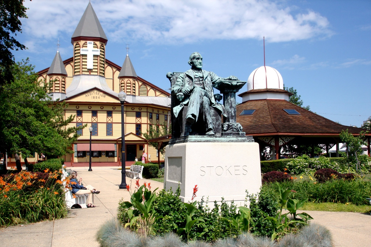 The Great Auditorium and a statue of Ellwood H. Stokes facing Ocean Pathway in the Ocean Grove Camp Meeting Association District